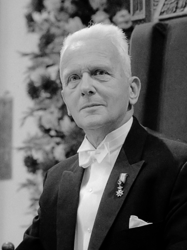 Opening der Staten-Generaal 1966. Voorzitter van de Eerste Kamer Prof. J.P. Mazure tijdens de opening der Staten-Generaal in de Ridderzaal 20 september 1966